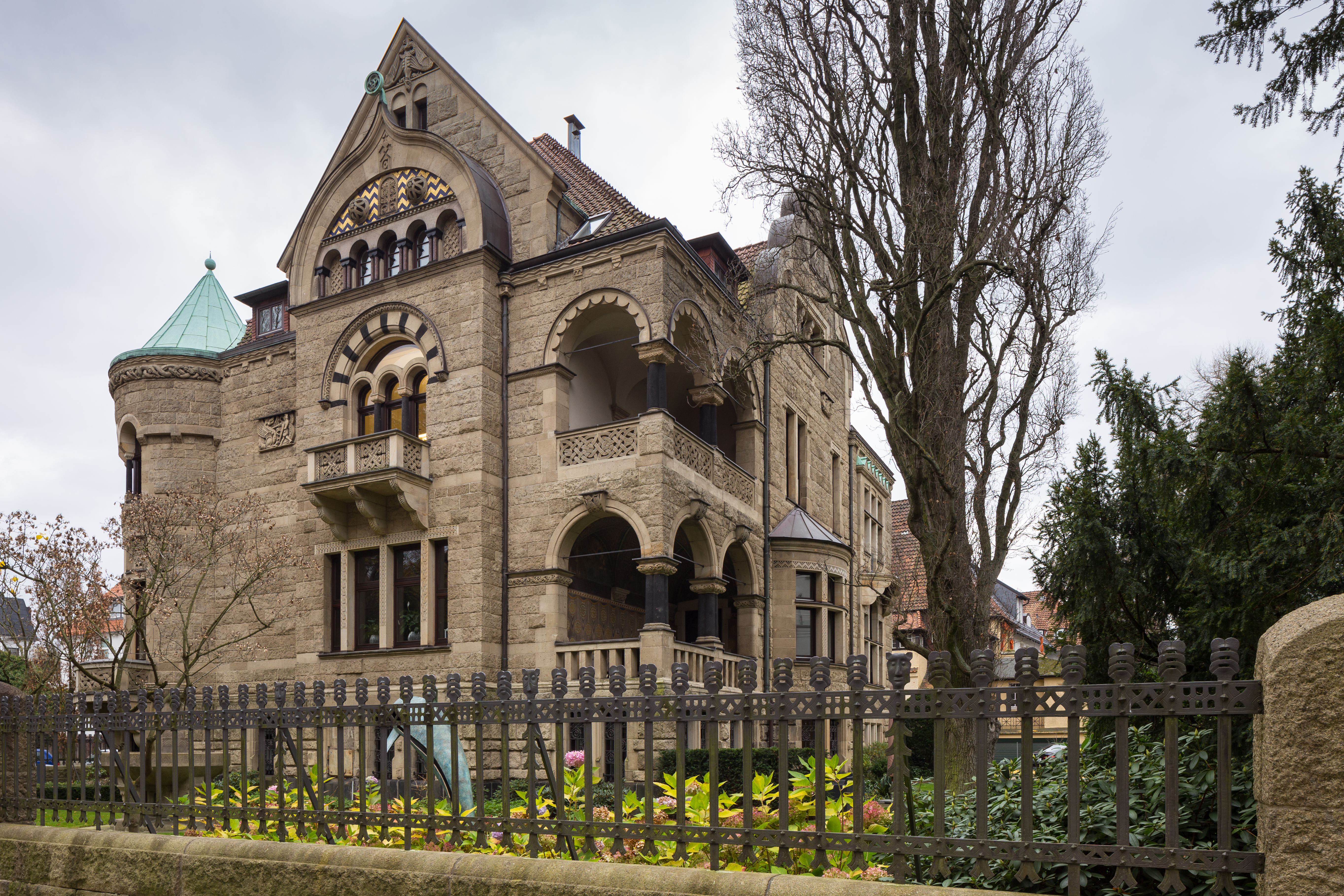 Former Villa Ebeling located at Hindenburgstrasse no. 42 in Zoo quarter of Hannover, Germany. View from Hindenburgstrasse.